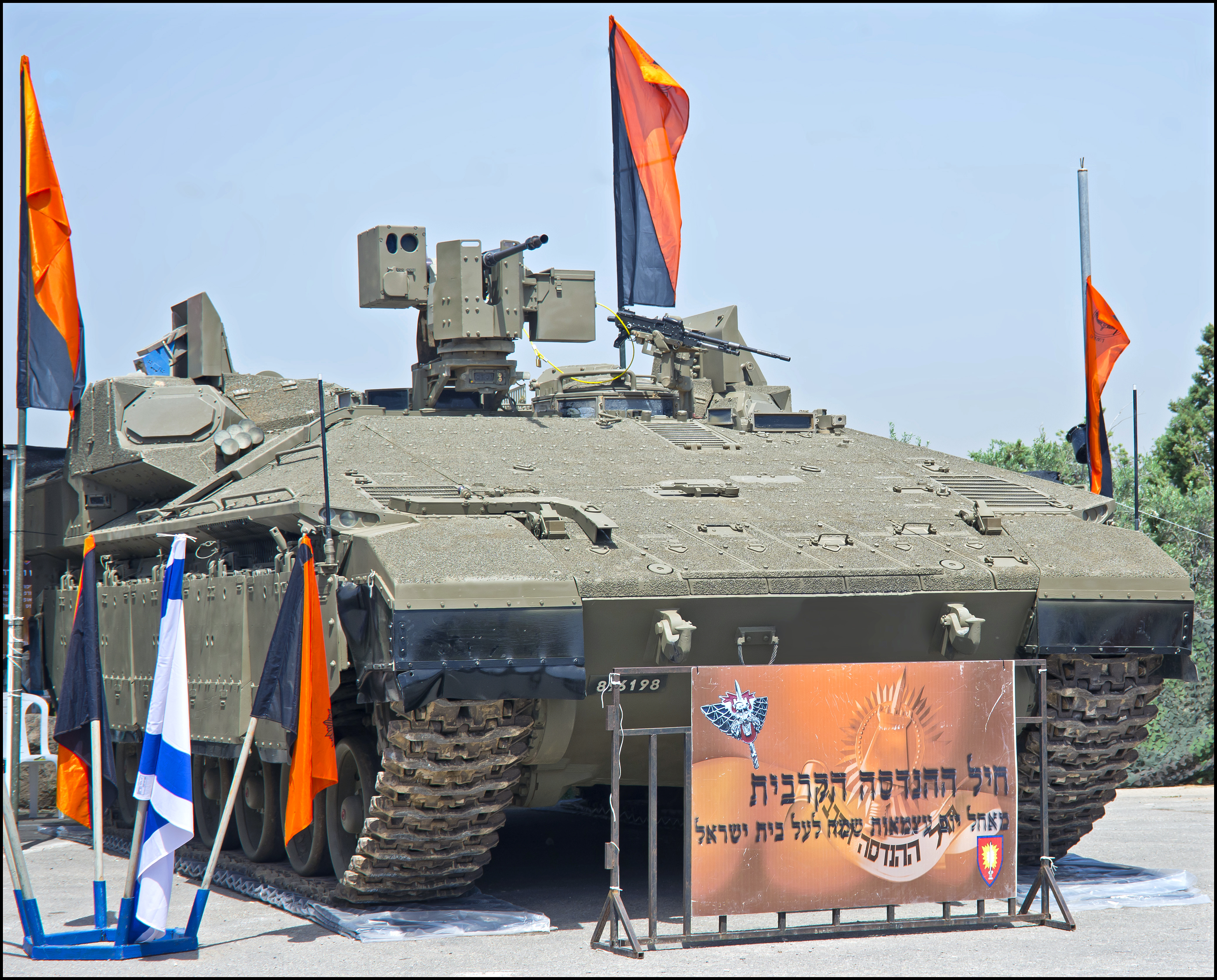 IDF Nammer CEV,Yad LaShiryon, Israel 70th Independence Day, 2018